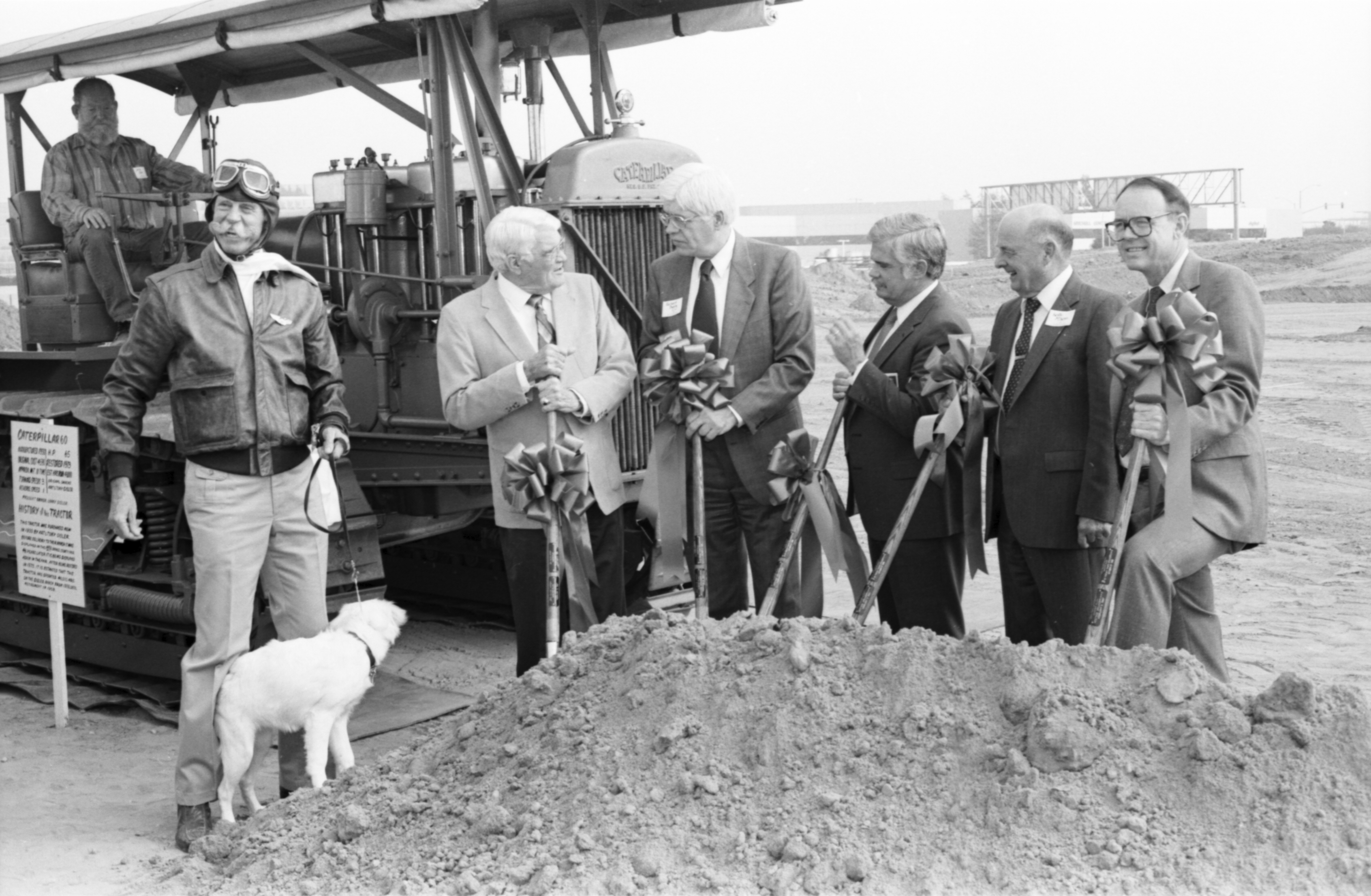 There are no known copyright restrictions on this image. All future uses of this photo should include the courtesy line, "Photo courtesy Orange County Archives." Comments are welcome after reading our Comment Policy . (PIOn10)